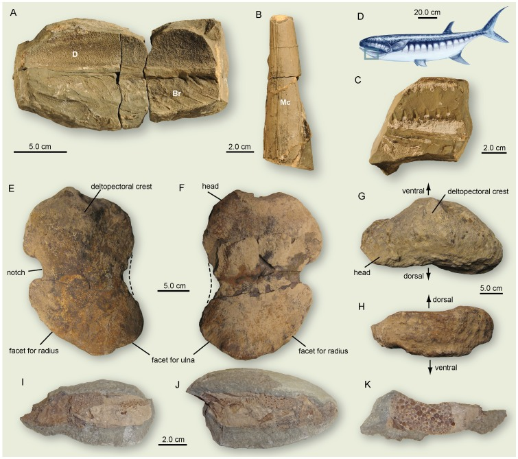 A-C. Assemblage of skull and lower jaw elements of a large Birgeria sp. (PIMUZ A/I 4301) from the Lusitaniadalen Member (Smithian), Vikinghøgda Formation, Stensiöfjellet, Sassendalen, Spitsbergen. Note that specimen (B) represents the infilling of the Meckelian canal. D. Position of the large specimen (A) on the reconstruction of animal indicated by blue rectangle. E-H. Humerus (NMMNH P-65886) of a giant ichthyosaur from the mid to late Spathian in the Hammond Creek area, Bear Lake valley, southeast Idaho, USA. I-K. Nodule (PIMUZ 30731) containing large coprolite with fish remains from the Griesbachian of Kap Stosch, East Greenland, possibly from a temnospondyl ‘amphibian’. Br, branchiostegal rays; D, dentary; Mc, Meckelian canal (infilling).